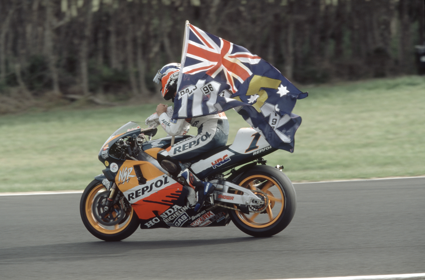 Mick Doohan, sitting on his Repsol Honda, celebrating with a special Australian flag after winning the 1998 Australian Grand Prix and his fifth consecutive world championship.